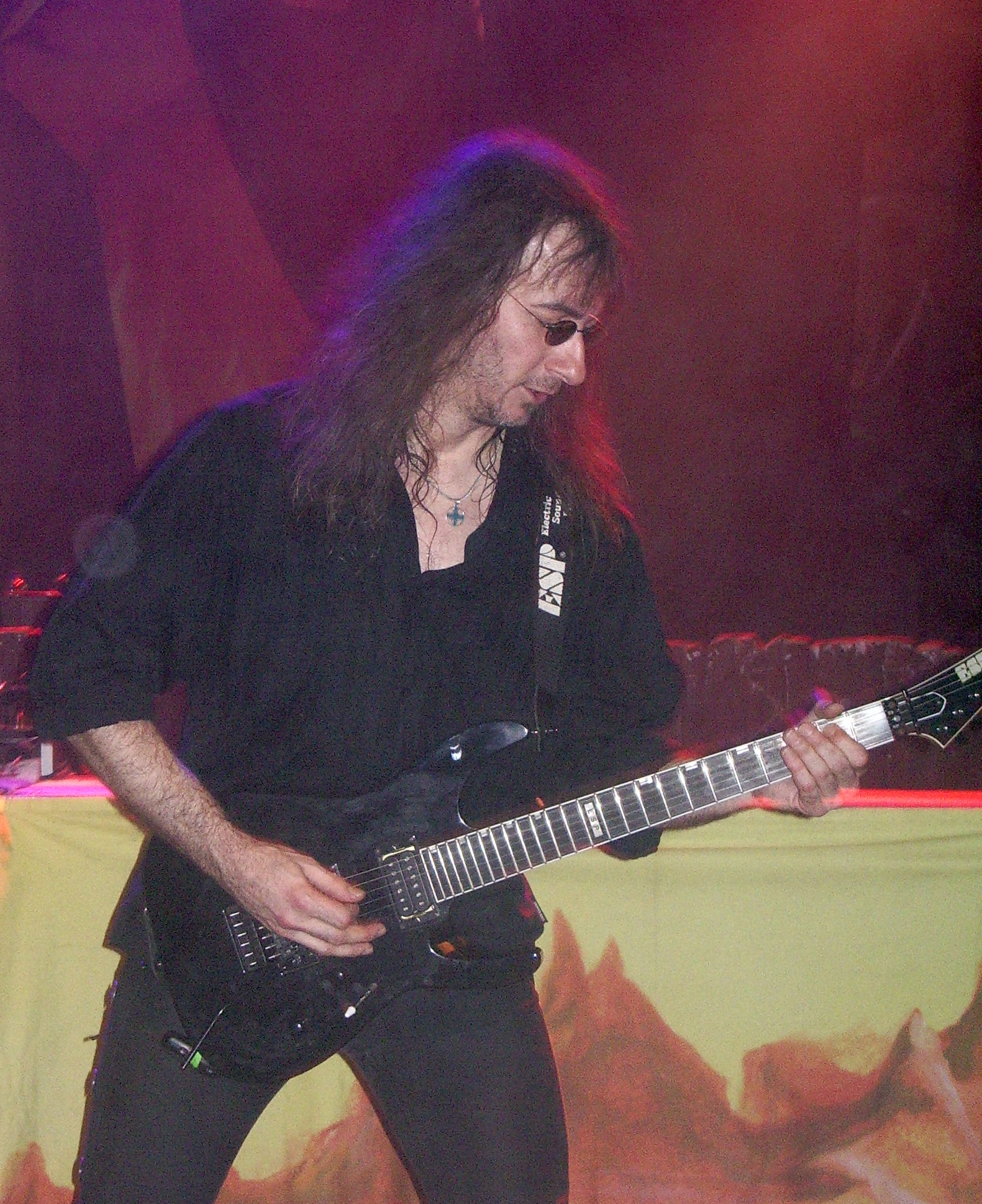 Henjo Richter performing live with Gamma Ray at Shepherds Bush Empire in London